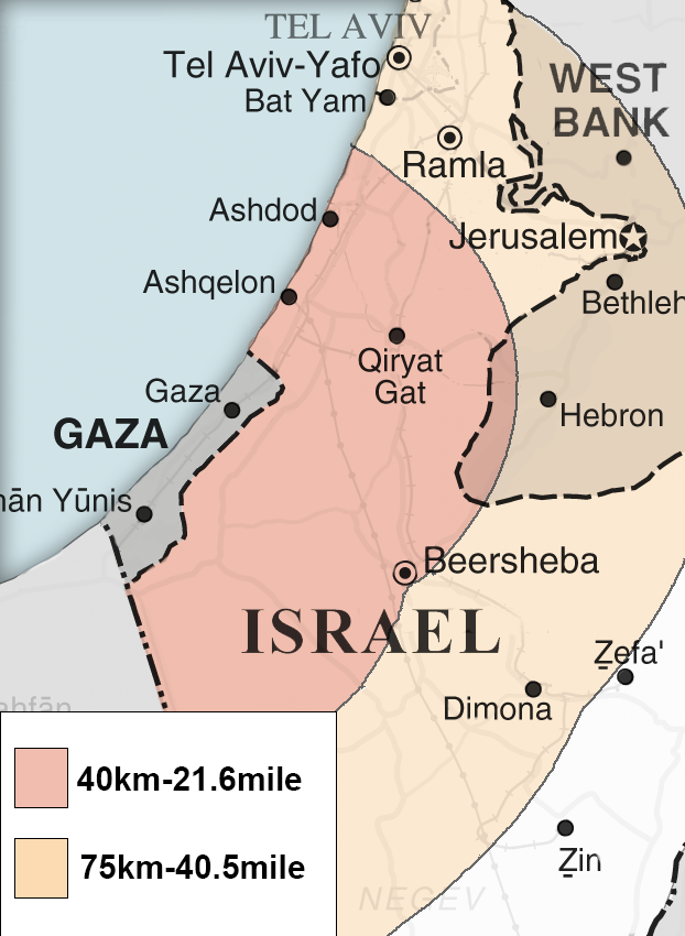 illustrate the region of the conflict depicted in the article, rocket range and discussed locations.